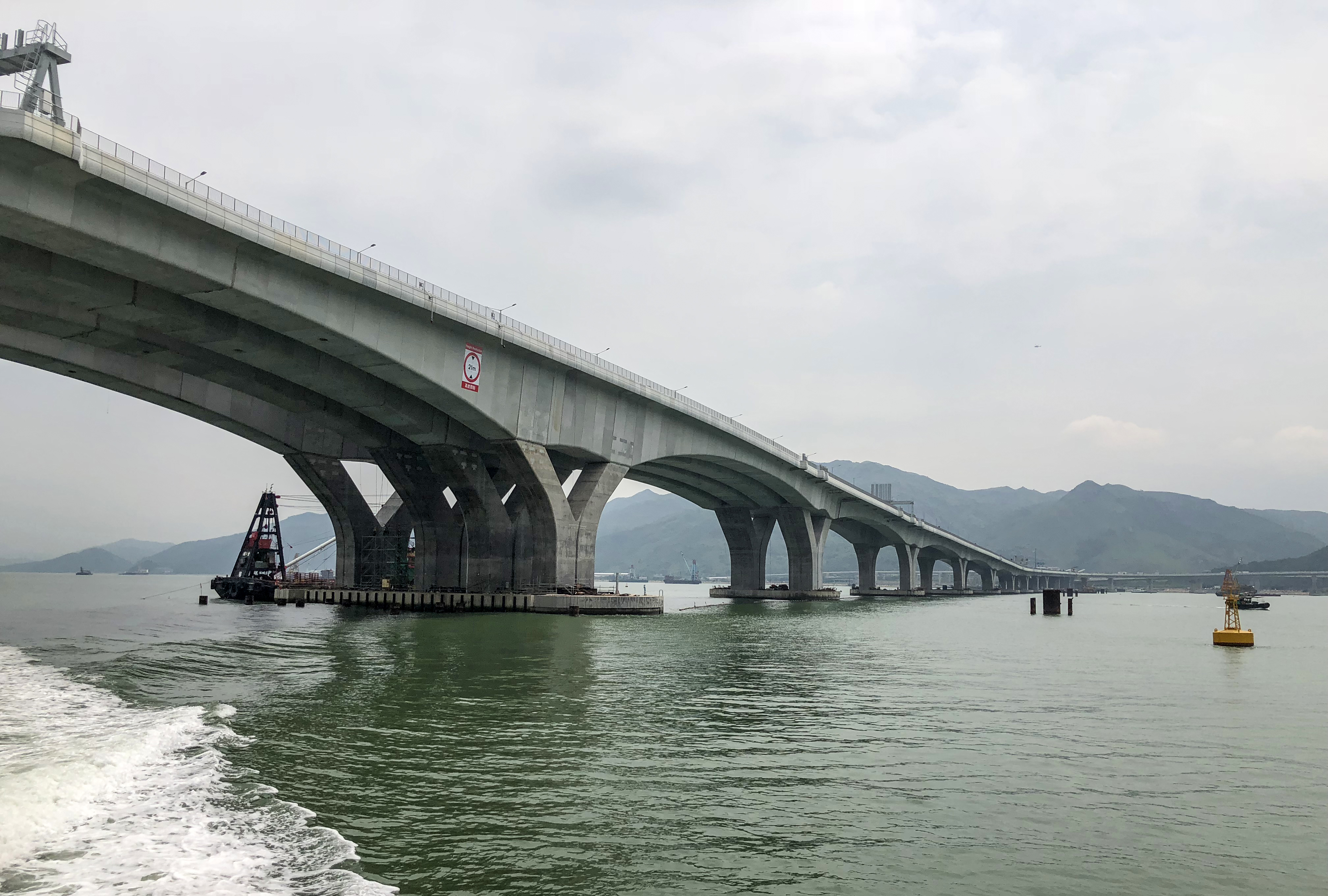 Taken from Tuen Mun-Tai O ferry.